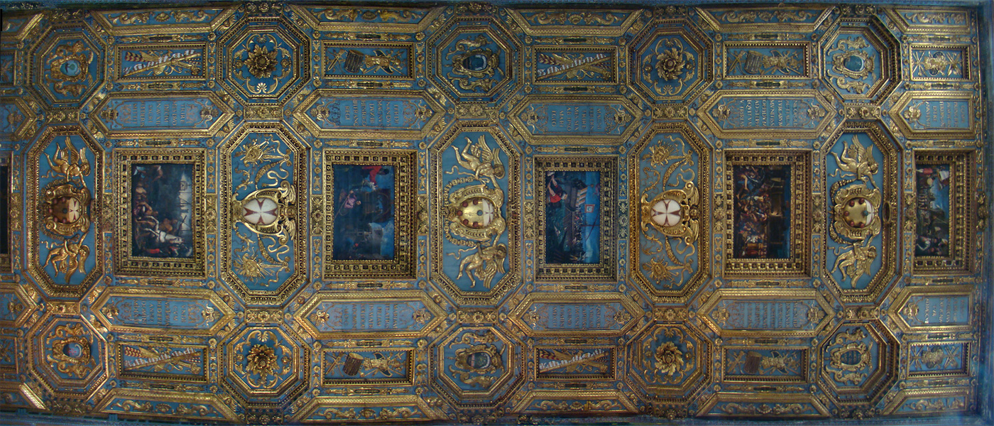 Church of Santo Stefano dei Cavalieri, Pisa, Tuscany, Italy. The vault over the nave.